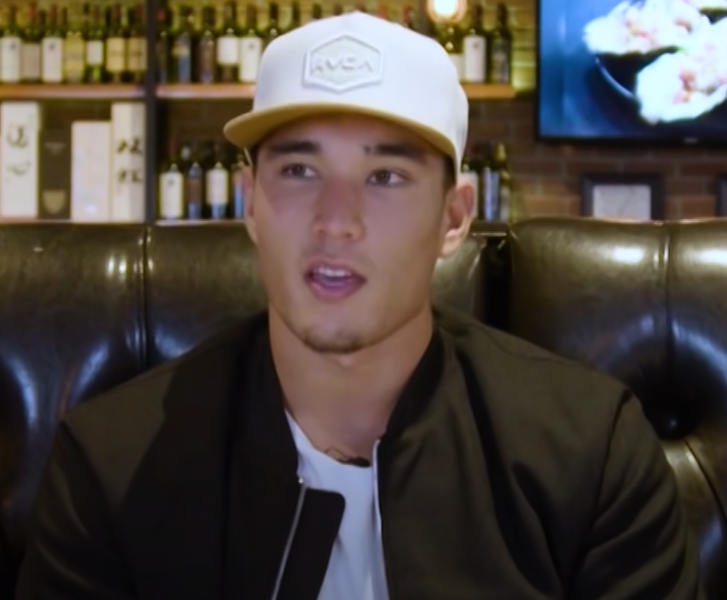 In 2020